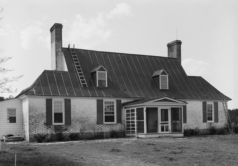 Abingdon Glebe House, U.S. Route 17 vicinity, Gloucester vicinity Gloucester County, Virginia) cropped This file comes from the Historic American Buildings Survey (HABS), Historic American Engineering Record (HAER) or Historic American Landscapes Survey (HALS). These are programs of the National Park Service established for the purpose of documenting historic places. Records consist of measured drawings, archival photographs, and written reports. When reusing please credit: Library of Congress, Prints & Photographs Division, VA,37-WHIMA,1-1 This tag does not indicate the copyright status of the attached work. A normal copyright tag is still required. See Commons:Licensing for more information. This work is in the public domain in the United States because it is a work prepared by an officer or employee of the United States Government as part of that person’s official duties under the terms of Title 17, Chapter 1, Section 105 of the US Code. See Copyright. Note: This only applies to original works of the Federal Government and not to the work of any individual U.S. state, territory, commonwealth, county, municipality, or any other subdivision. This template also does not apply to postage stamp designs published by the United States Postal Service since 1978. (See § 313.6(C)(1) of Compendium of U.S. Copyright Office Practices). It also does not apply to certain US coins; see The US Mint Terms of Use. This file has been identified as being free of known restrictions under copyright law, including all related and neighboring rights.